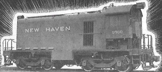 Photo of the first Alco 600 locomotive built, from an ad for Alco diesel locomotives in Railway Age.